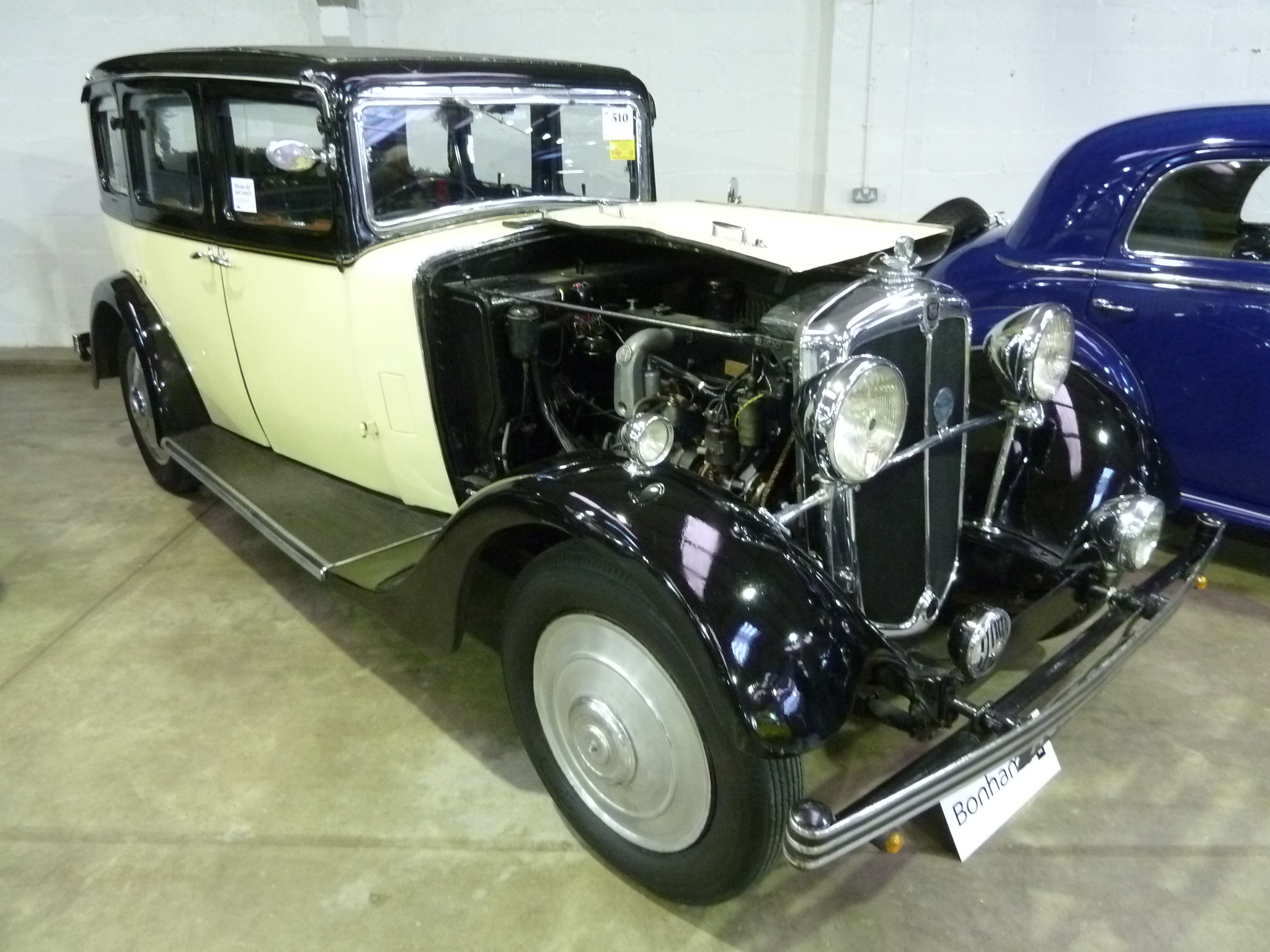 1934 Morris Isis Saloon - Coachwork by Mulliner AOE 809(DVLA) first registered 12 July 1934From Bonham's catalogue: Repainted but otherwise un-restored, this rare coachbuilt Isis is believed to be the only survivor of six bodied by Mulliner, though at time of cataloguing it had not been possible to determine which of the three companies of that name was responsible. Lot heading: 1934 Morris Isis Saloon Coachwork by Mulliner Registration no. AOE 809 Chassis no. 34/1/7329 Engine no. JK 17122